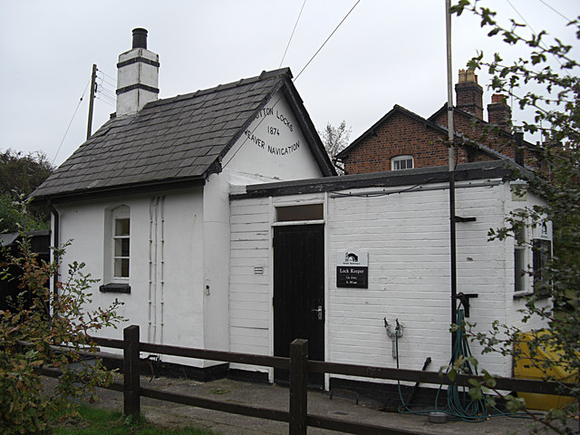 Lockkeeper's cottage, Dutton Locks On the north bank of the Weaver Navigation. Shot taken from inside the lockkeeper's garden.